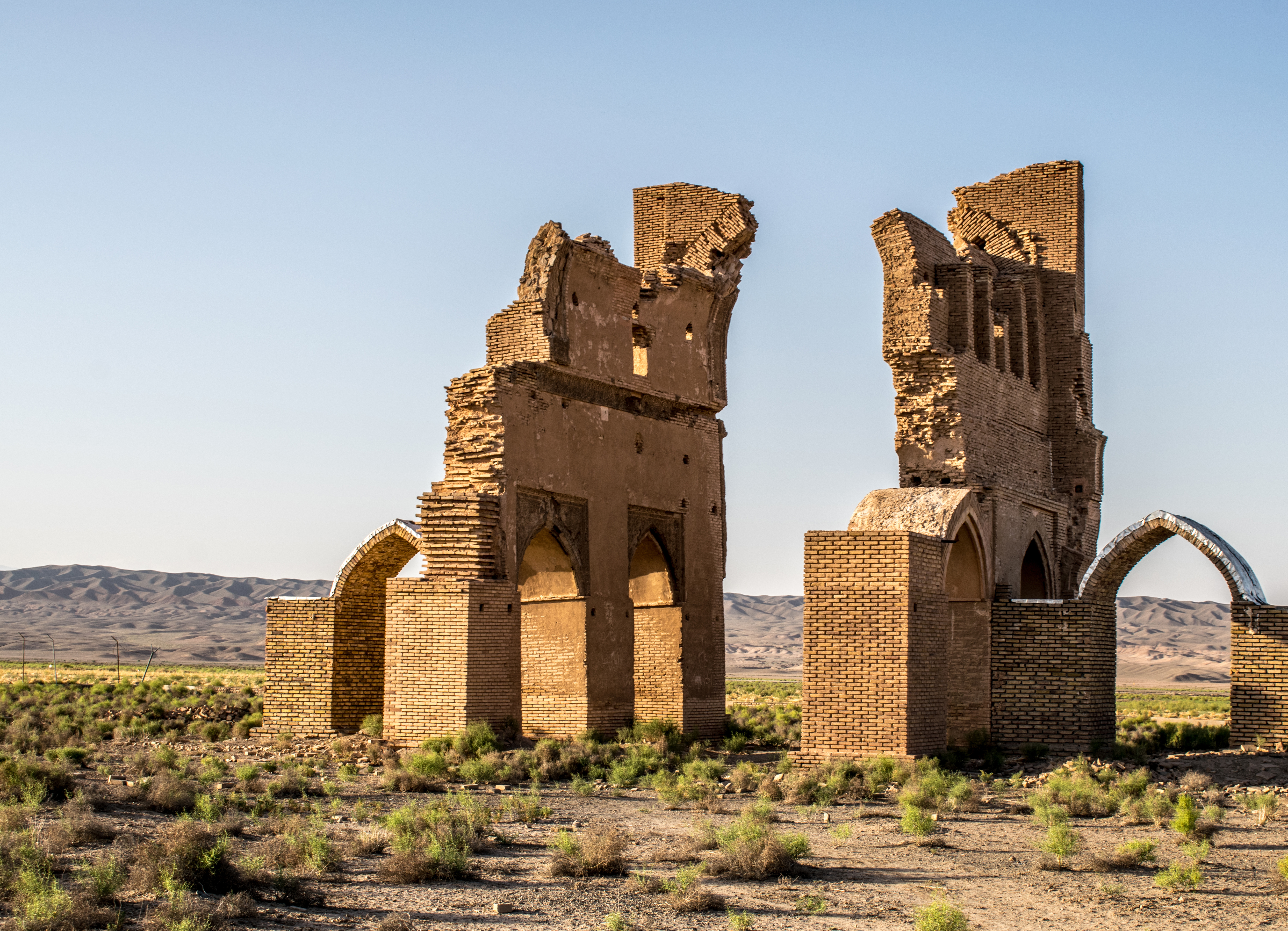 Khosrow Shir Vault